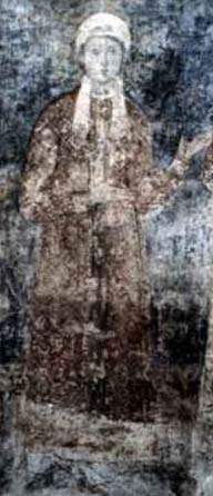 Anastasia of Kiev